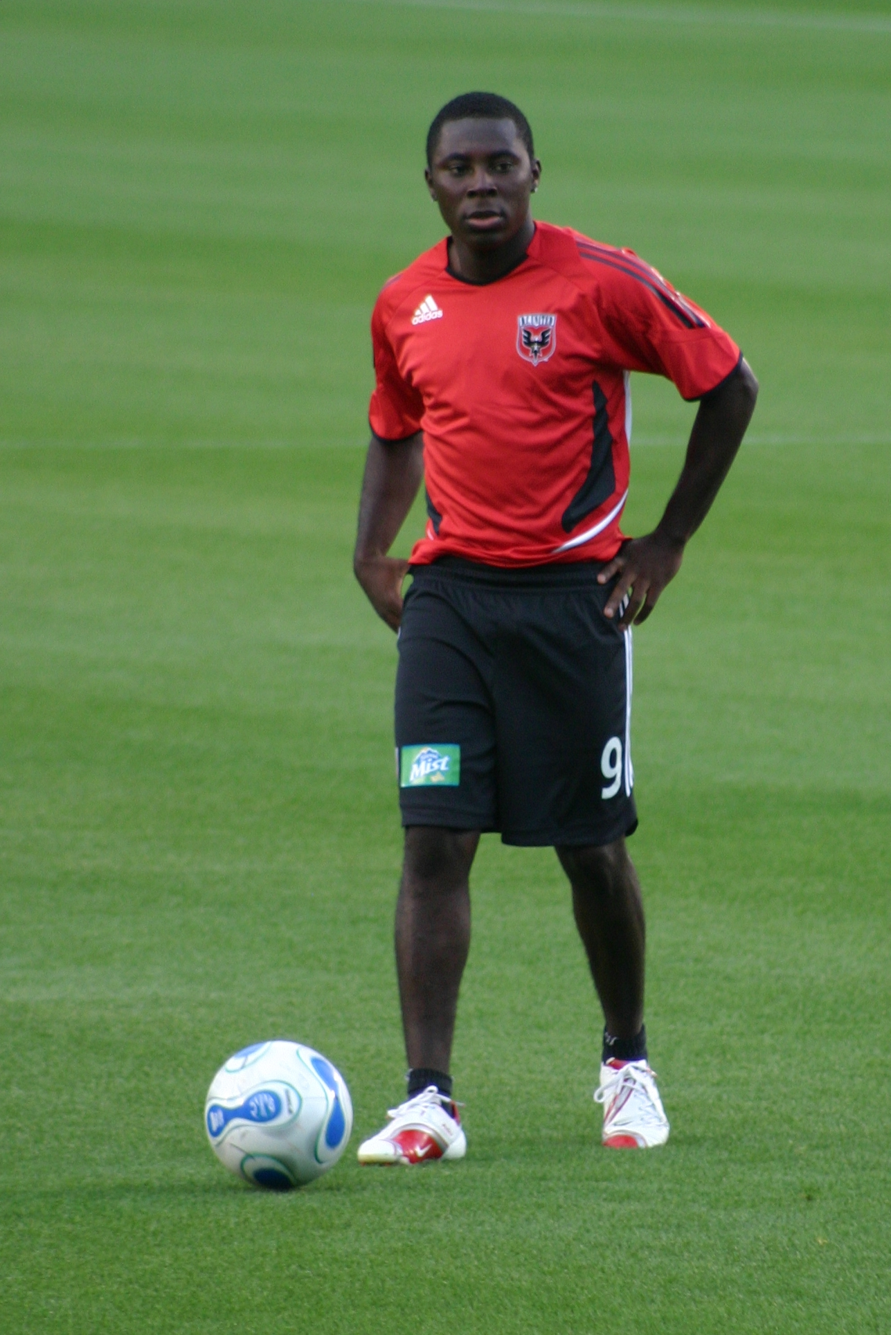 Freddy Adu before a Lamar Hunt U.S. Open Cup match against the Charleston Battery